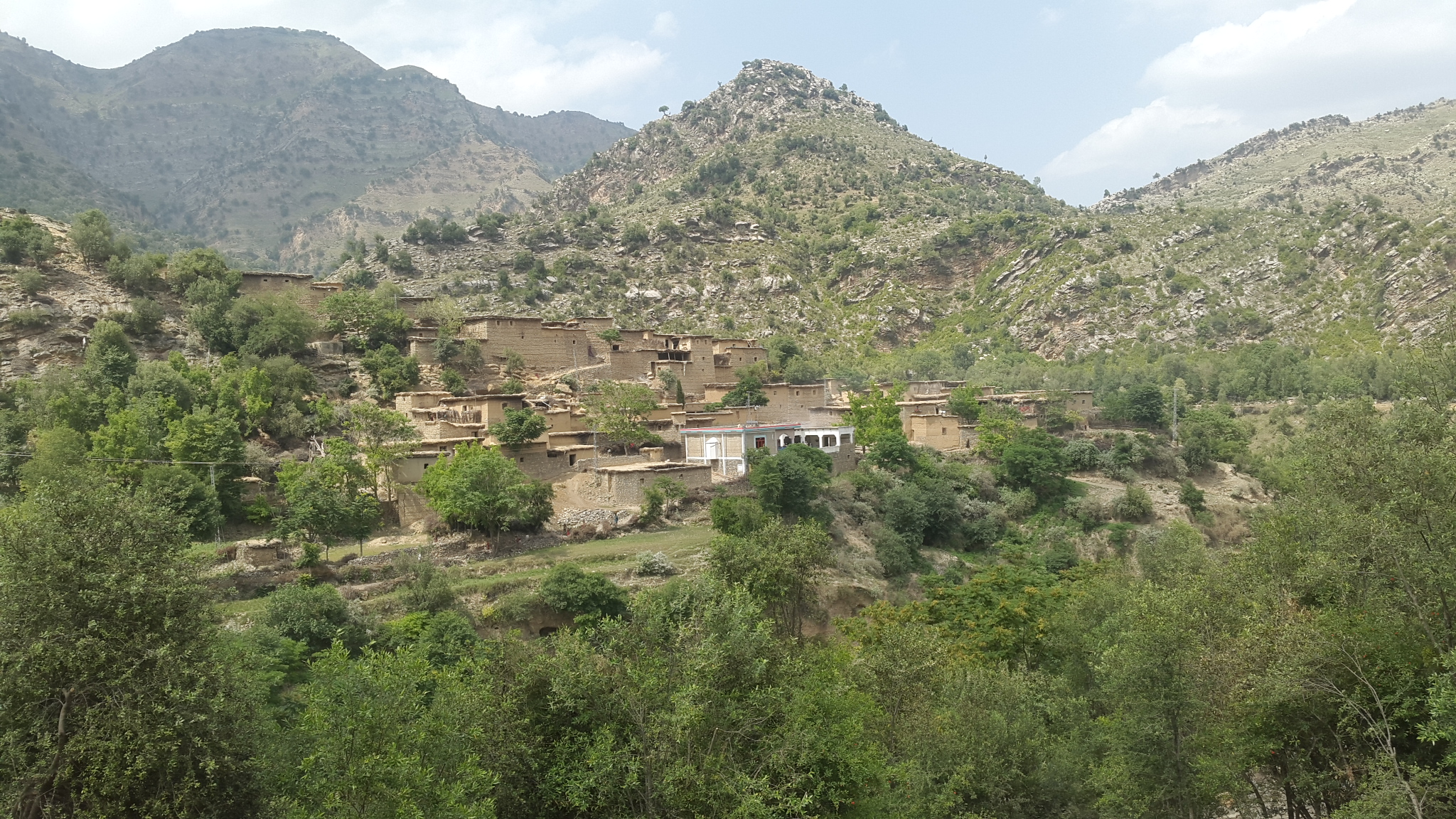 Orakzai Agency in North Waziristan